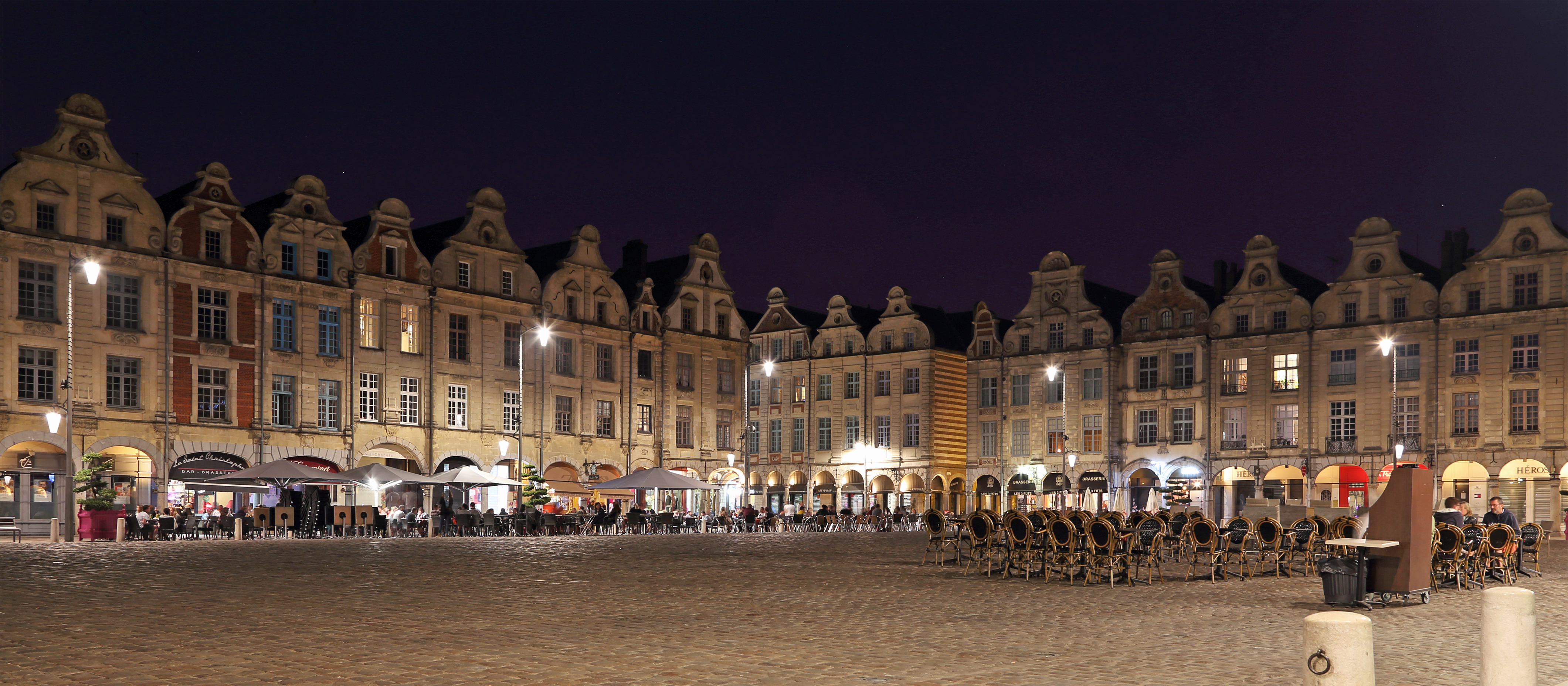 Arras (Pas-de-Calais department, France): Place des Héros by night